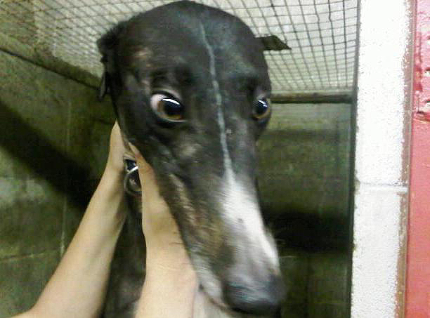 Caged greyhound at Jefferson County Kennel Club, 2012